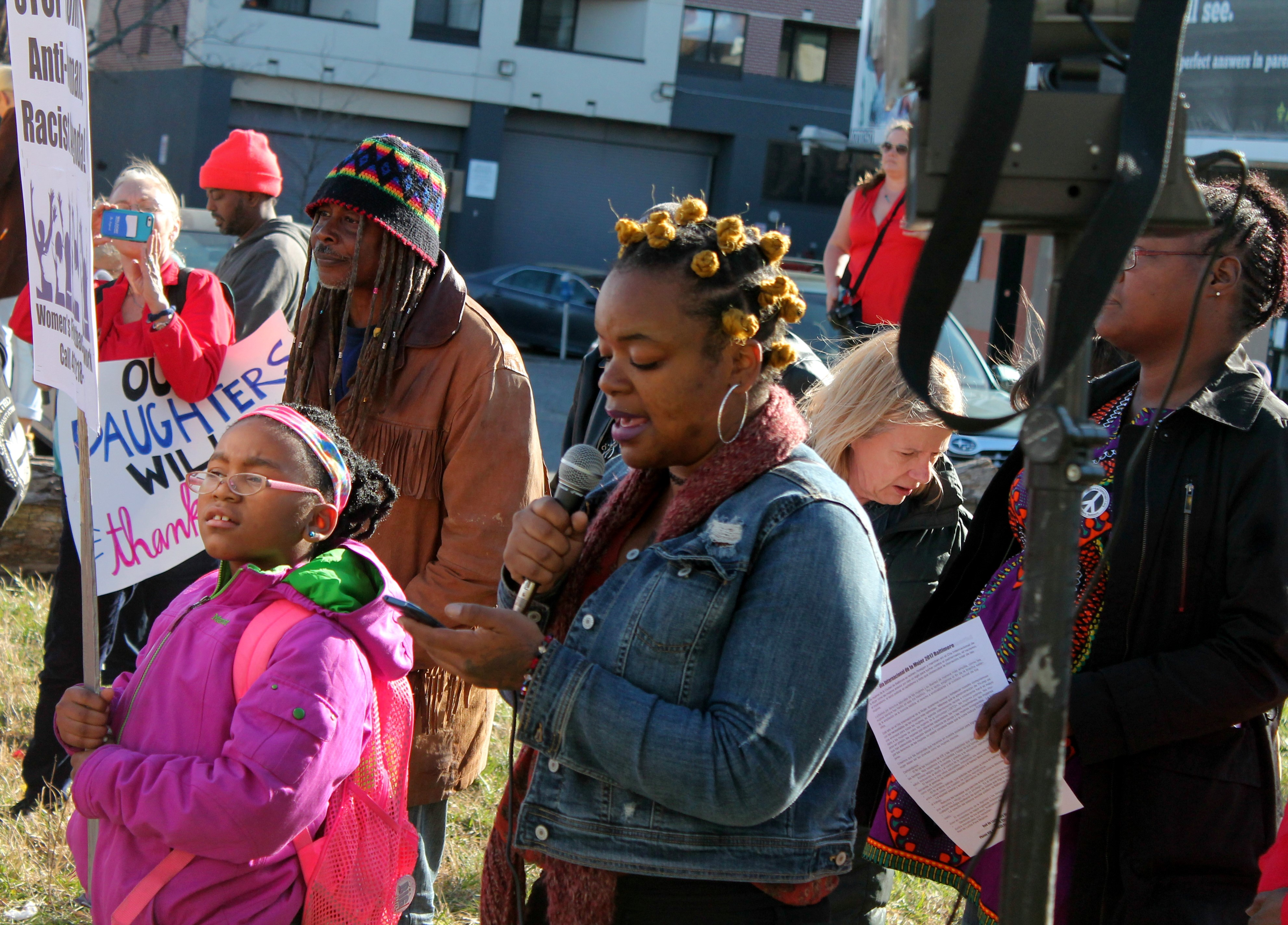 WOMEN UNITE TO FIGHT BACK International Women's Day Gathering Rally at People's Park in the 2000 block of North Charles Street in Baltimore MD on Wednesday afternoon, 8 March 2017 by Elvert Barnes Photography Sara Boatema Benjamin Follow Baltimore International Women's Day Strike & March at Elvert Barnes 8 March 2017 BALTIMORE WOMEN'S DAY STRIKE & MARCH docu-project at